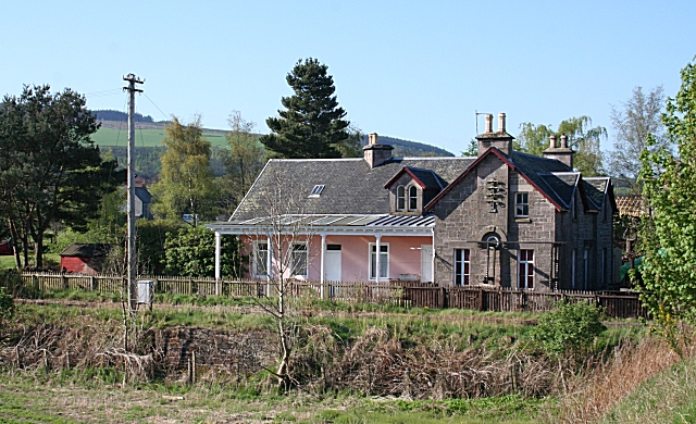 Mulben Station Now a private residence. The railway line is in the foreground, so this was the platform side of the station.